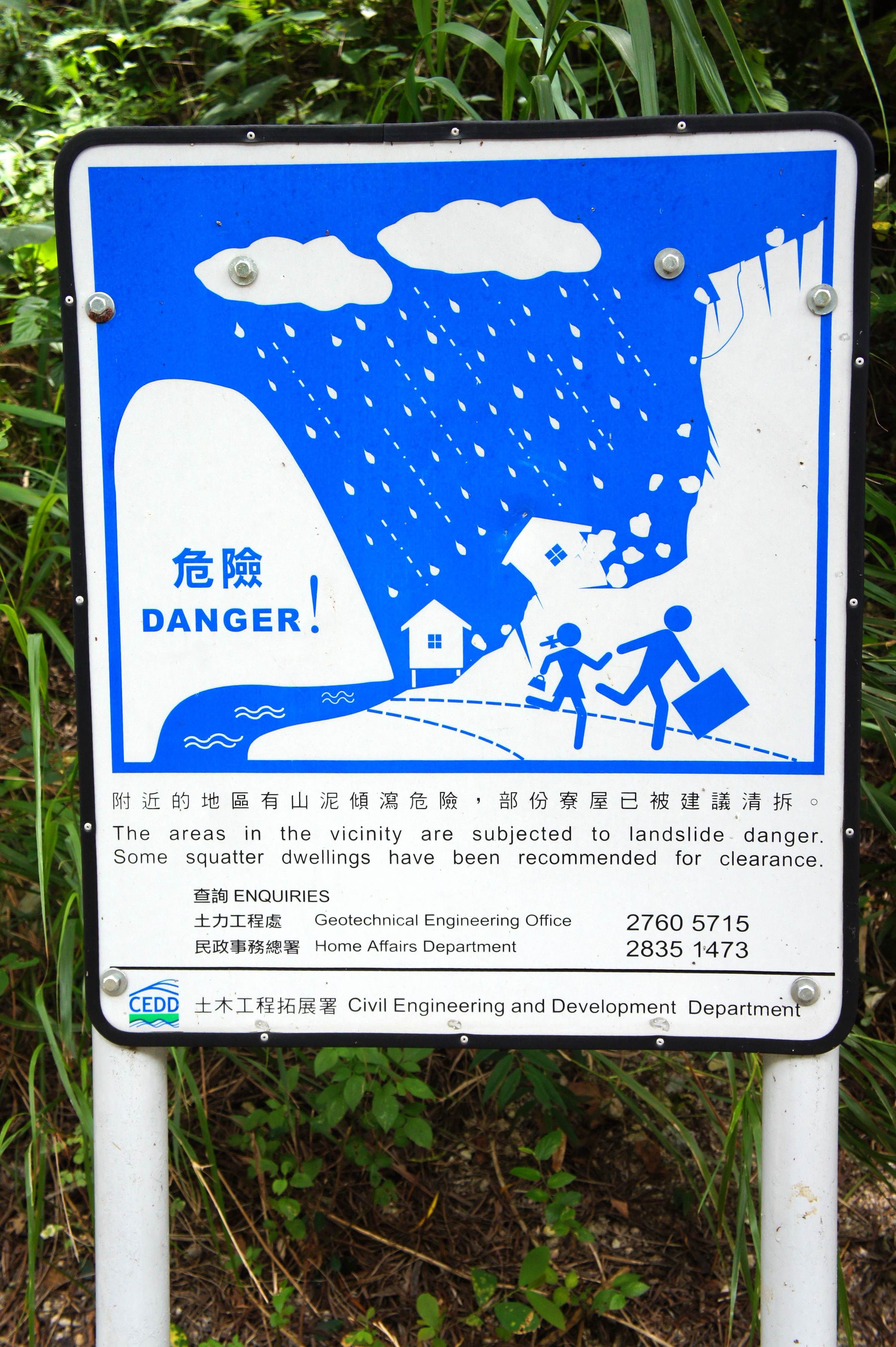 A sign posted by the Civil Engineering and Development Department, Hong Kong. On the sign wrote: "The areas in the vicinity are subjected to landslide danger. Some squatter dwellings have been recommended for clearance."